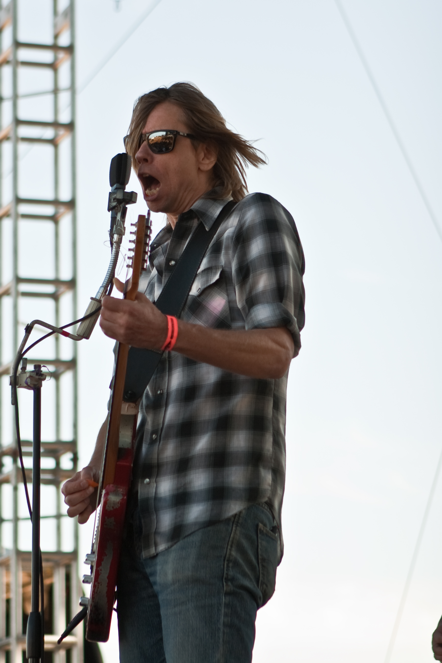 Daniel Riddle (King Black Acid) performing live on August 22, 2009 at the 94.7 FM Pet Aid concert at the Washington County Fair Complex in Hillsboro, OR.